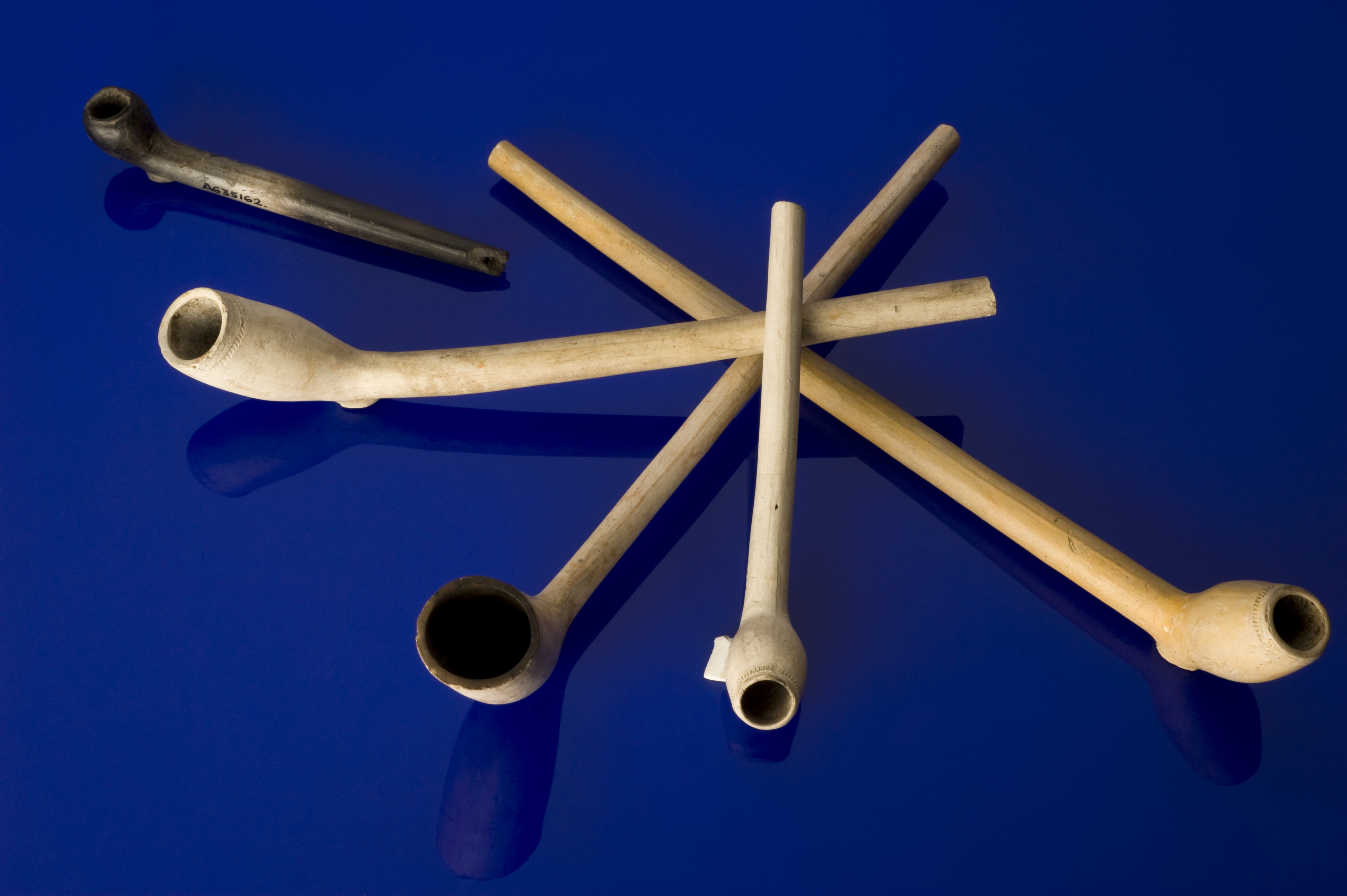 Tobacco became fashionable in England in the 1570s. Clay tobacco pipes were the easiest way to smoke it. They were inexpensive and popular but easily broken. Shredded tobacco would have been placed in the bowl of the pipe and lit, and the smoke inhaled through the mouthpiece. When tobacco was first introduced it was expensive so this meant that pipe bowls were quite small. Tobacco became more available and cheaper as more and more tobacco plantations were established in the United States. Smokers could soon afford extra tobacco and so the bowls of the pipes became progressively larger. (Pictured here with other clay pipes ranging from 1580-1790). maker: Unknown maker Place made: London, Greater London, England, United Kingdom Wellcome Images Keywords: Smoking; tobacco pipe